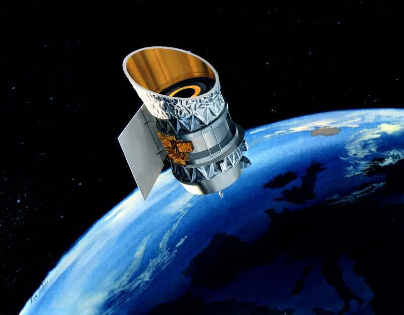 Artist's Concept of Infrared Astronomical Satellite